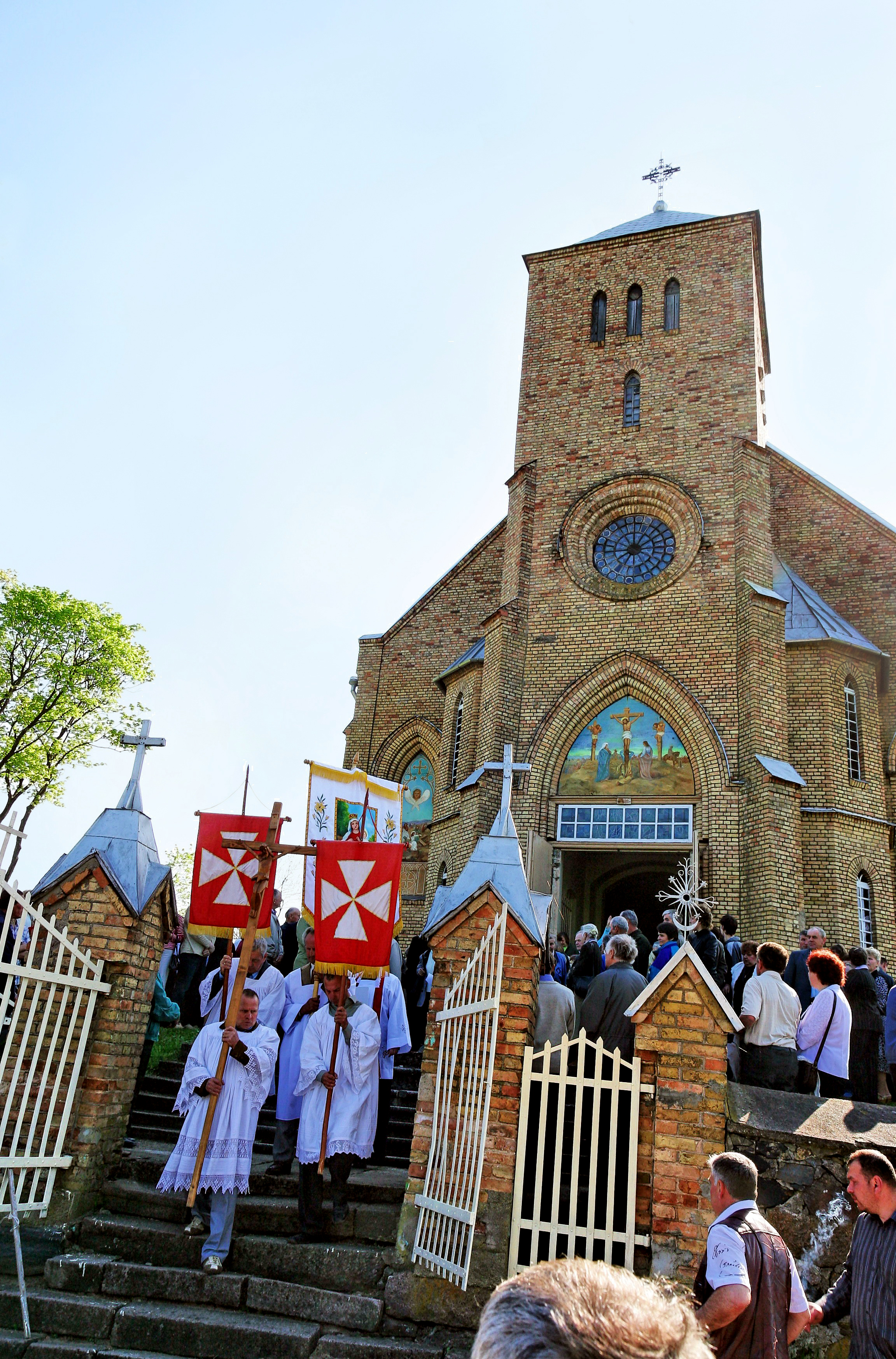 Vepriai church during Pentecos